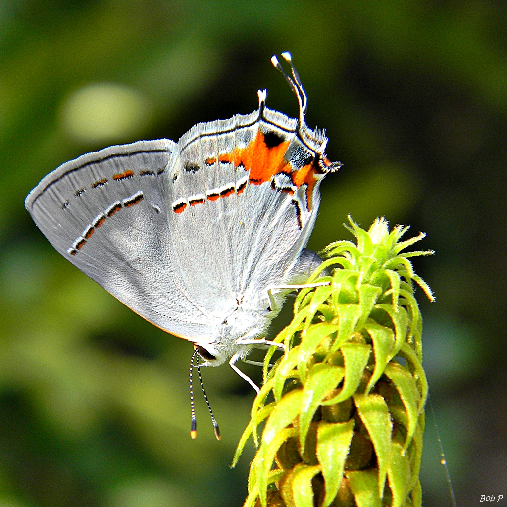 Strymon melinus on the tip of a nicker bean inflorescence at Frenchman's Forest. I took one more photo while they are still the "papillon du jour" in the area.